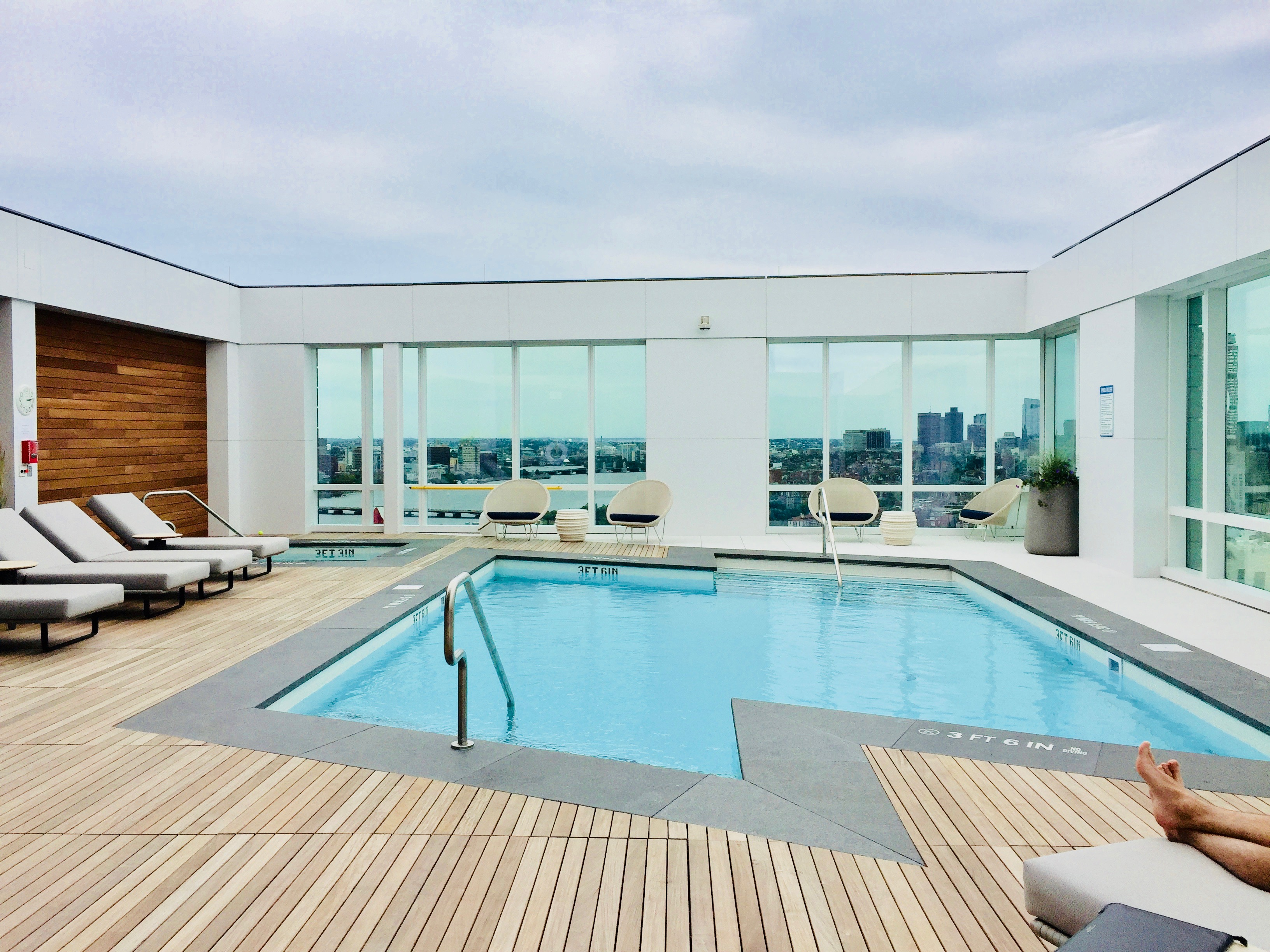 Roof-top pool deck at Pierce Boston - looking out at the Charles River and Downtown Boston - June 2018.